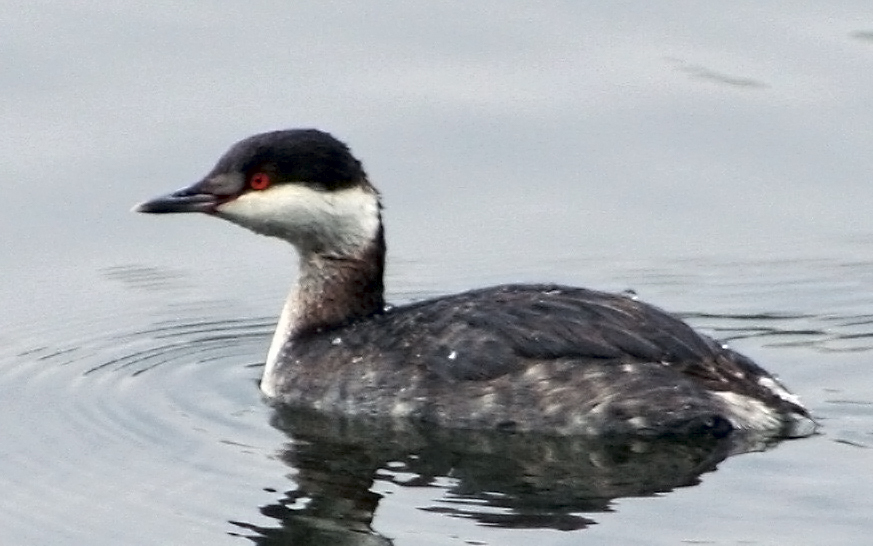 Horned Grebe. Taken 1/27/07 at Lake Merritt in Oakland, CA